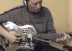 Studio-recording of Nashville tuned resonator guitar.